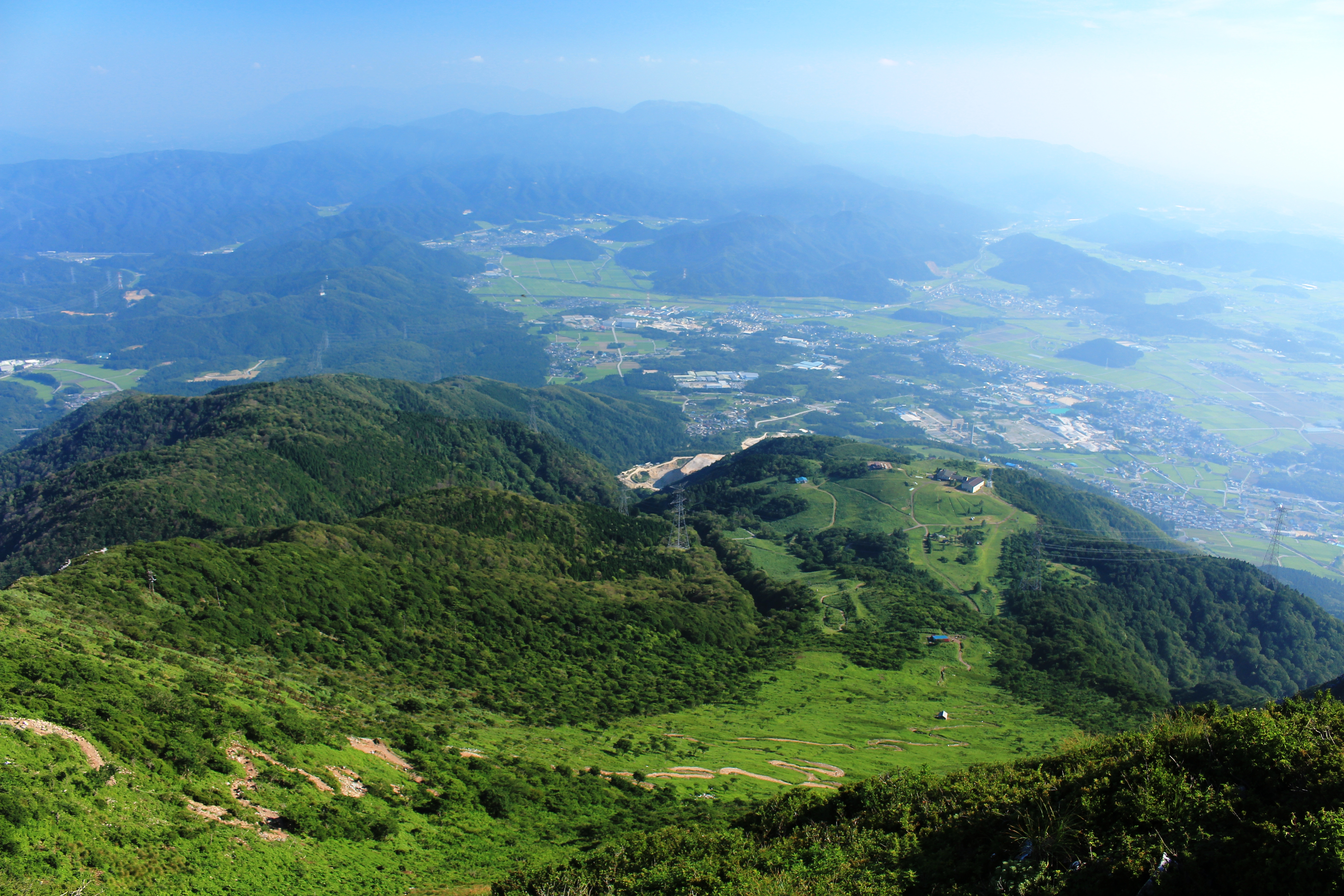 Suzuka Mountains seen from Mount Ibuki, in Maibara, Shiga prefecture, Japan.